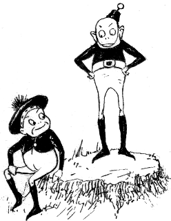 Two brownies.